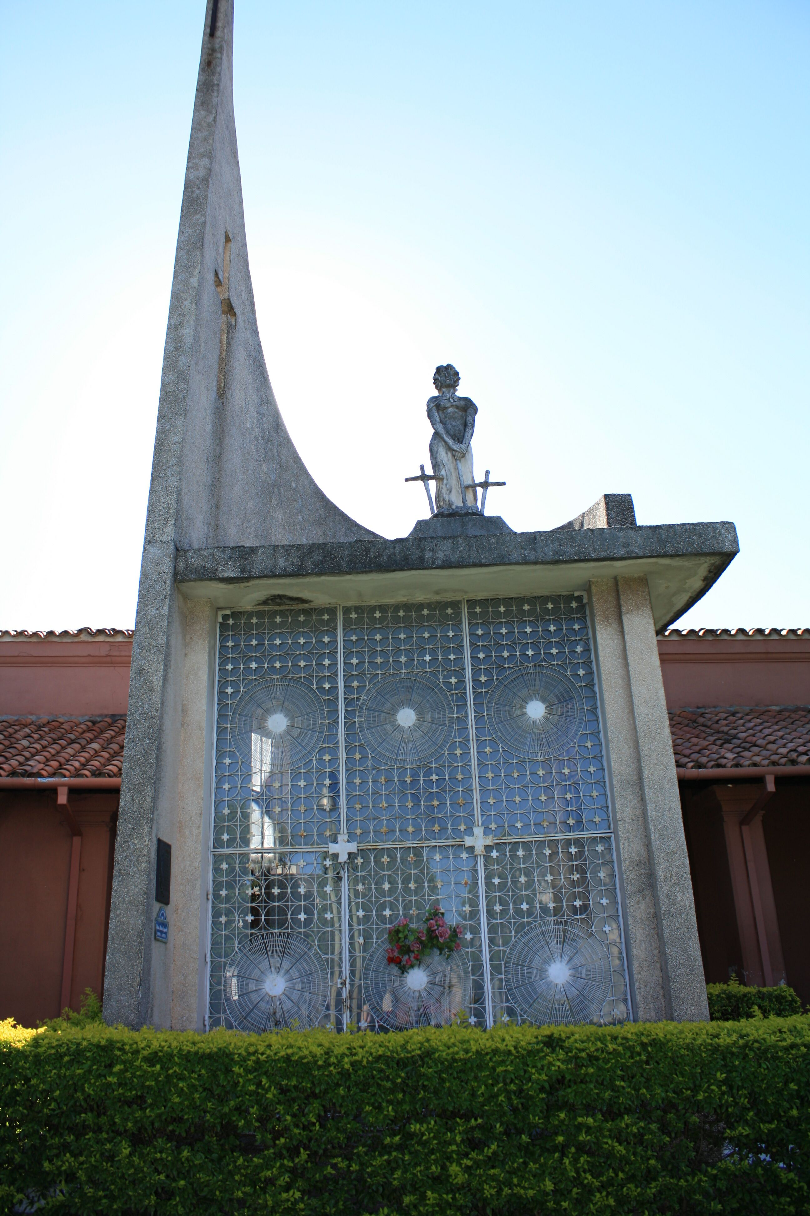 The tomb of Eliza A. Lynch in the Recoleta Cementery in Paraguay